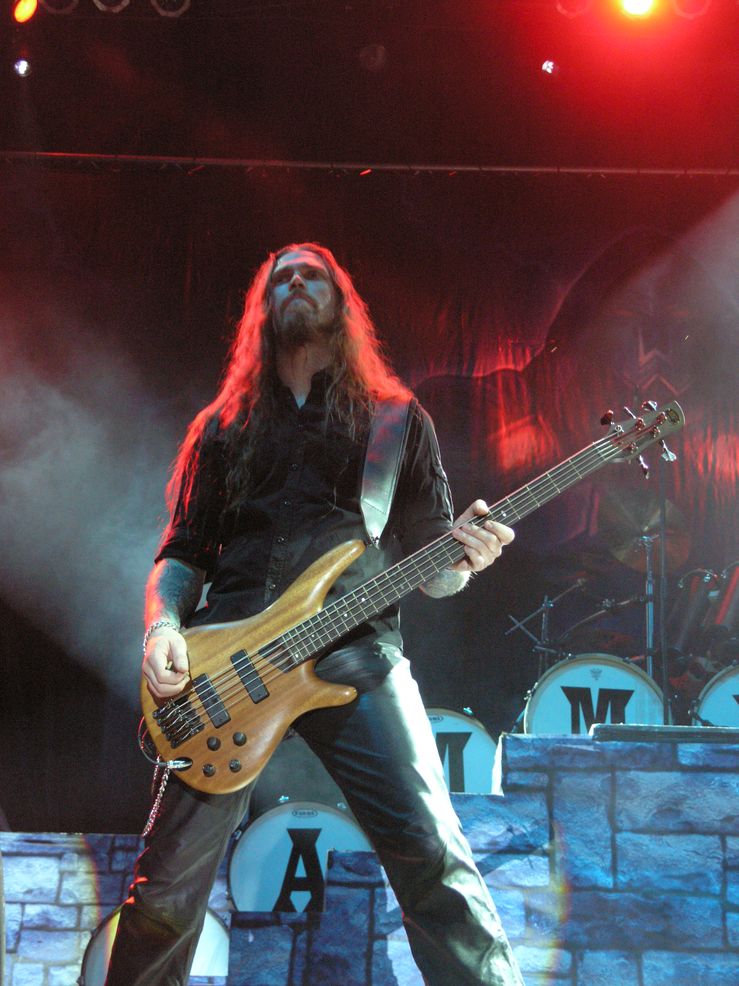 Fredrik Larsson from Hammerfall during Masters of Rock 2007 festival